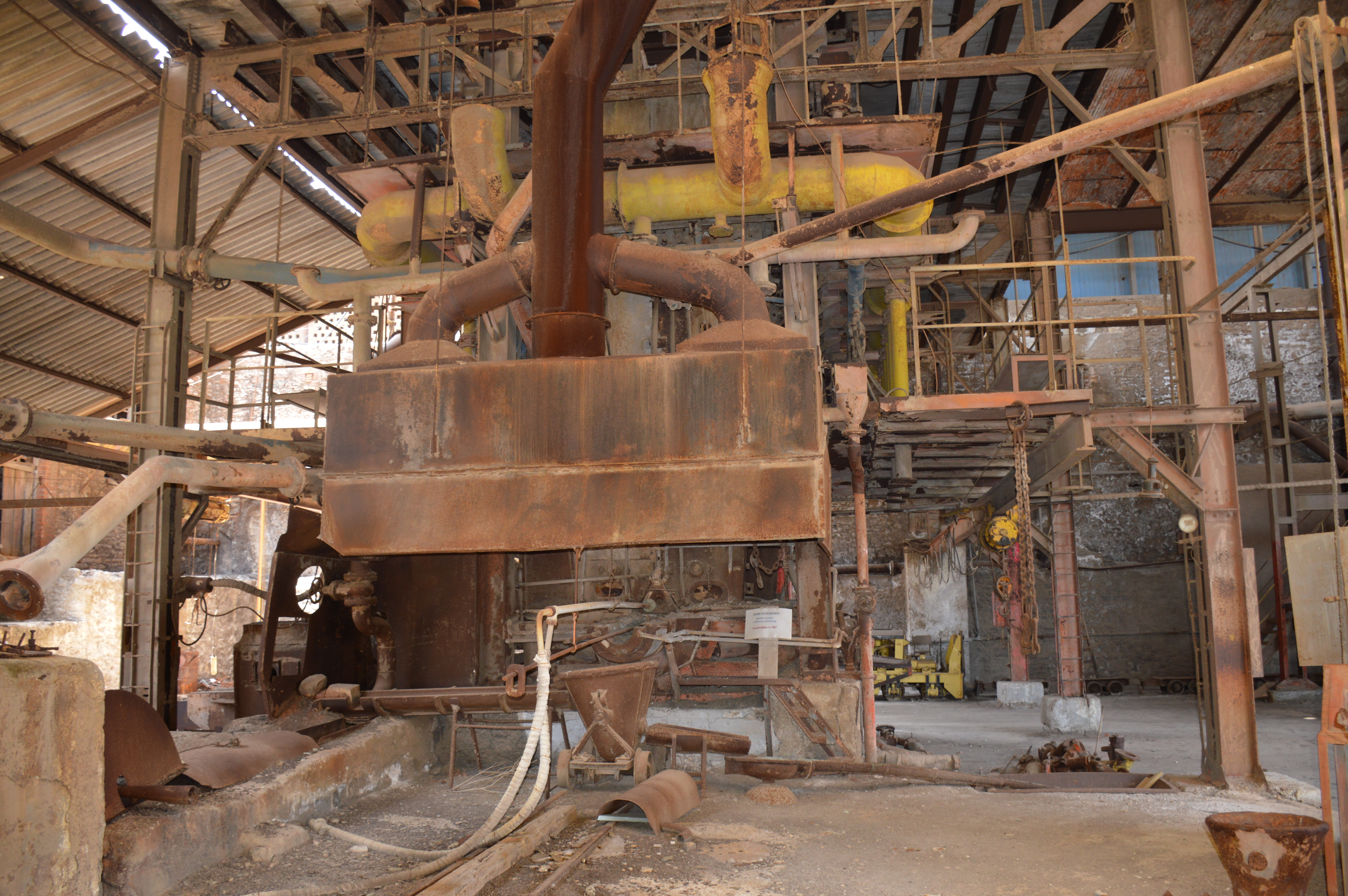 Melting furnace for the production of lead in Lavrion Greece ("WaterJacket", last period of the French Mining Company till 1989). Lavrion Technological Cultural Park and Museum of Technology.